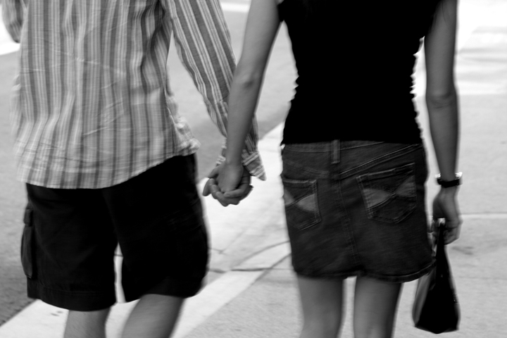 A male and a female holding hands.Bev & Ryan